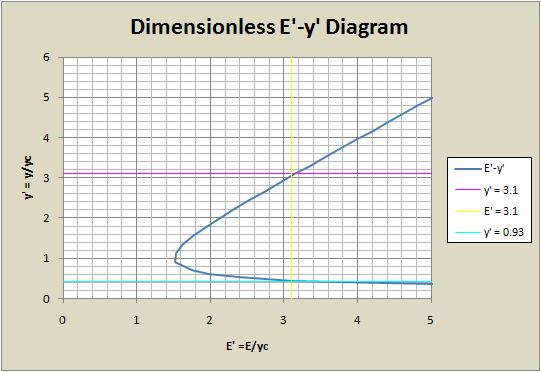 Dimensionless Specific Energy diagram